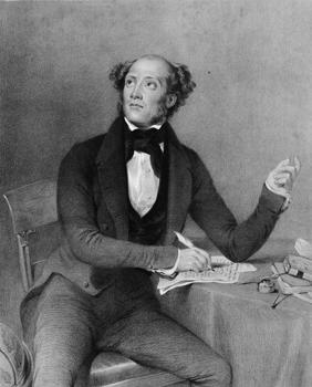 Lithograph of Oliver Byrne. Original in the posession of Gerald L. Alexanderson, Michael and Elizabeth Valeriote Professor in Science at Santa Clara University.